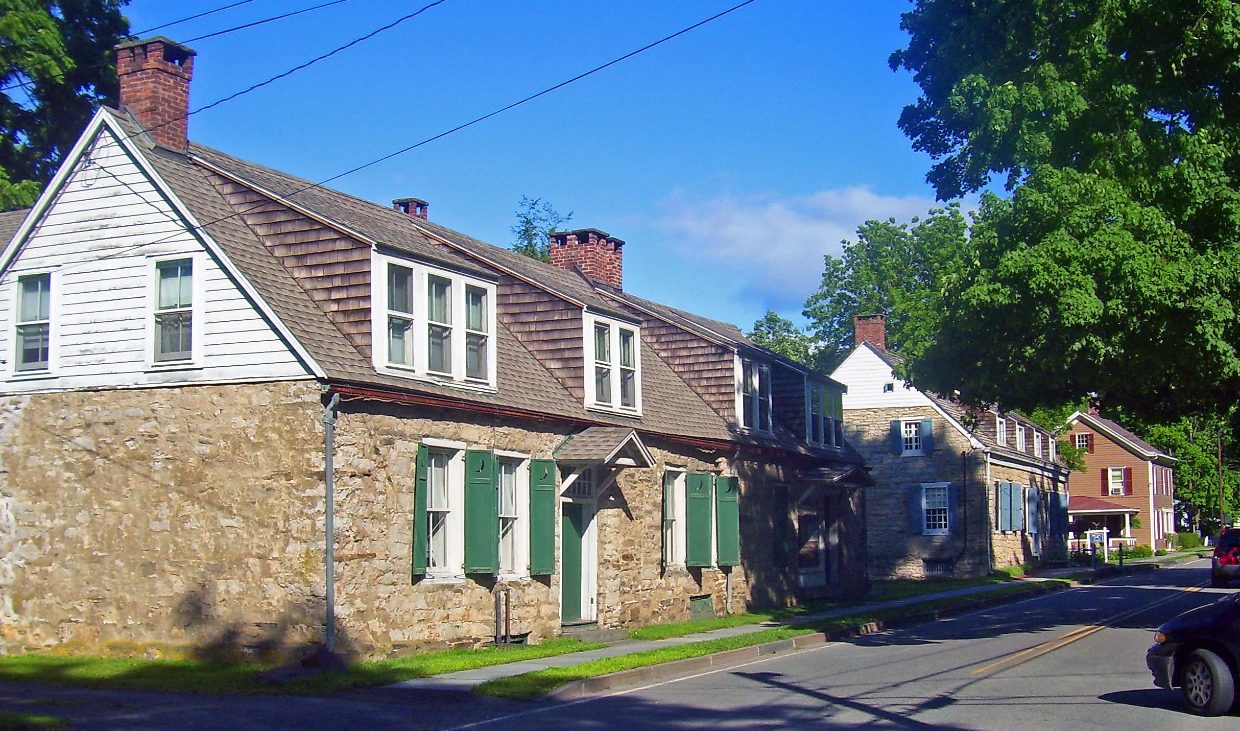 Main Street in Hurley, NY, USA, part of a National Historic Landmark District